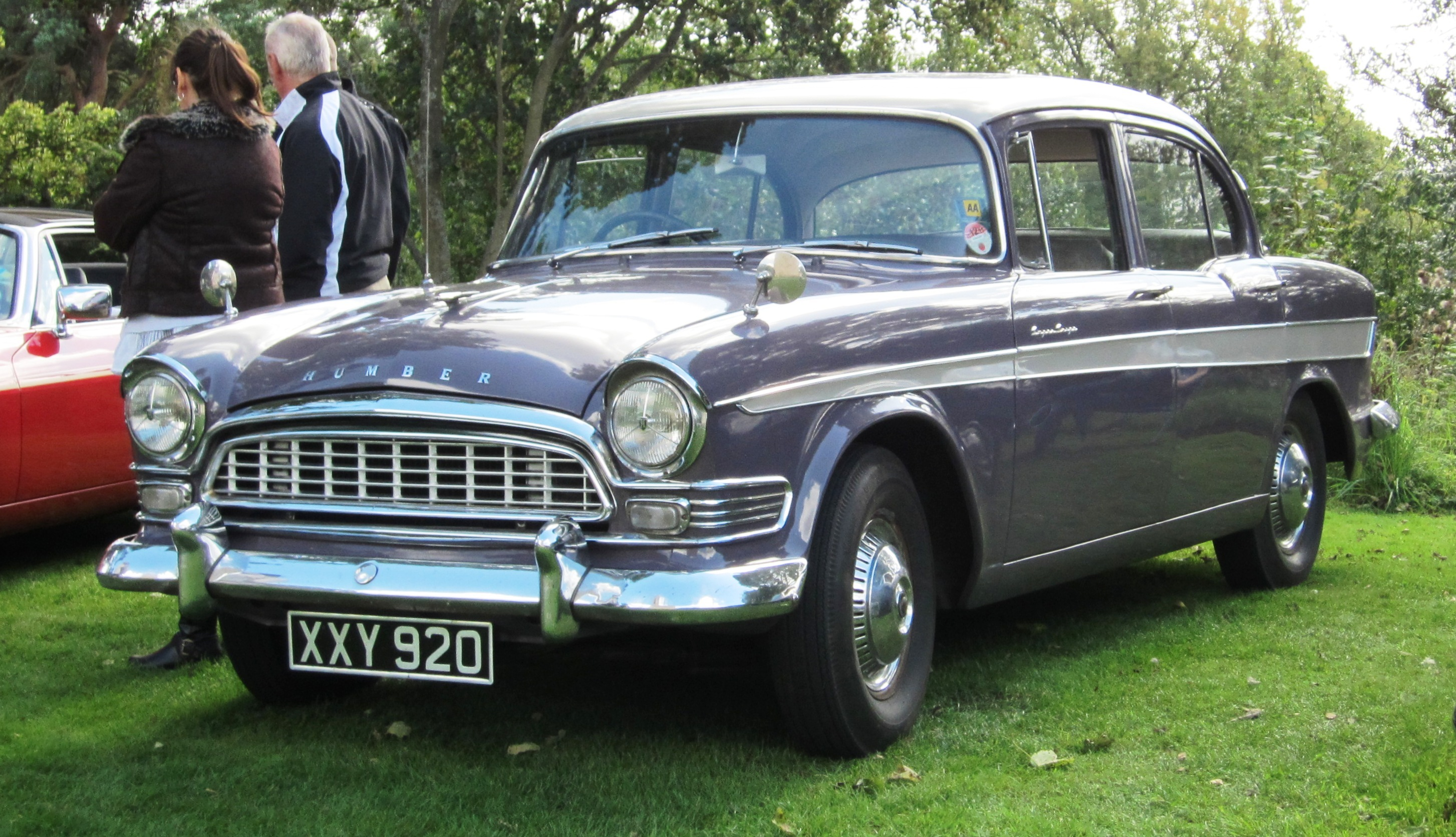 Humber Super Snipe II